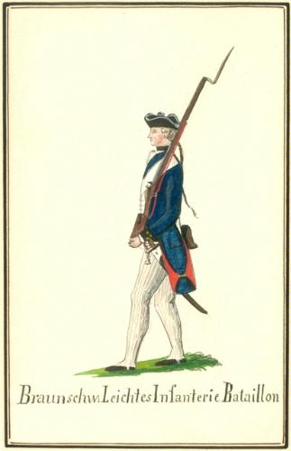 Watercolor of a Soldier from the Brunswick Light Infantry Batallion von Barner.